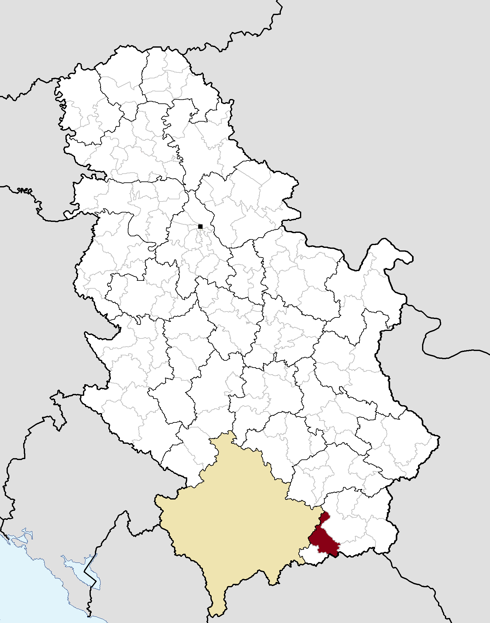 Municipal location in Serbia